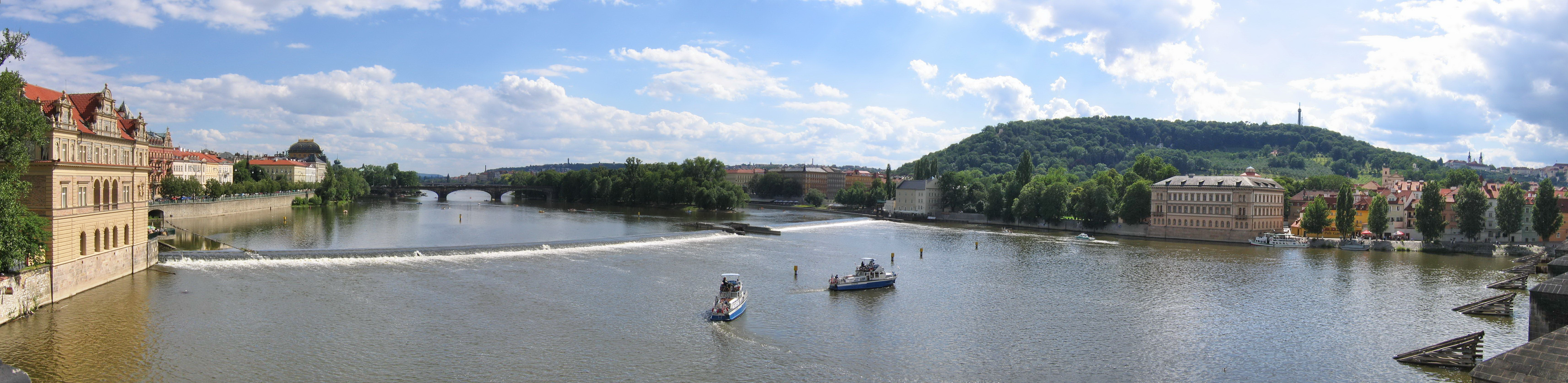 Panorama of 4 photographs. There is bridge "Most legií" on the picture. The boat in the center is indeed duplicated in two shots. Taken on a Canon PowerShot A95.